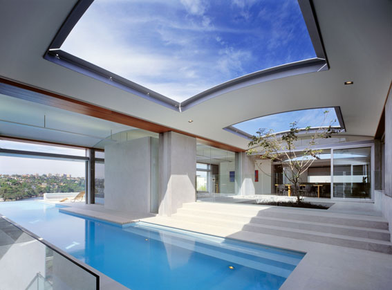 Northbridge House by Popov Bass Architects